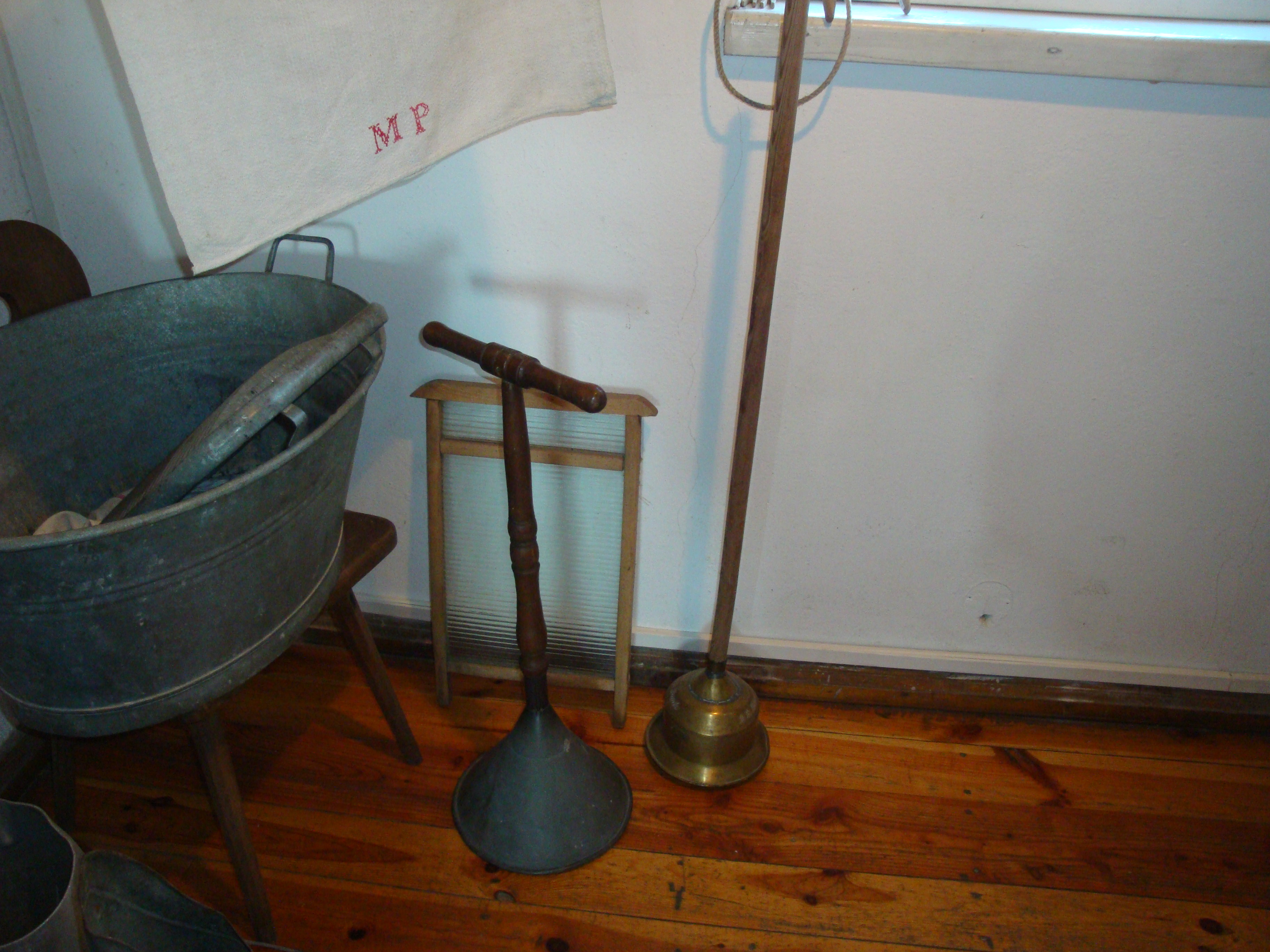 The Florian Ceynowa Museum of the Puck Region in Puck. Laundry equipment